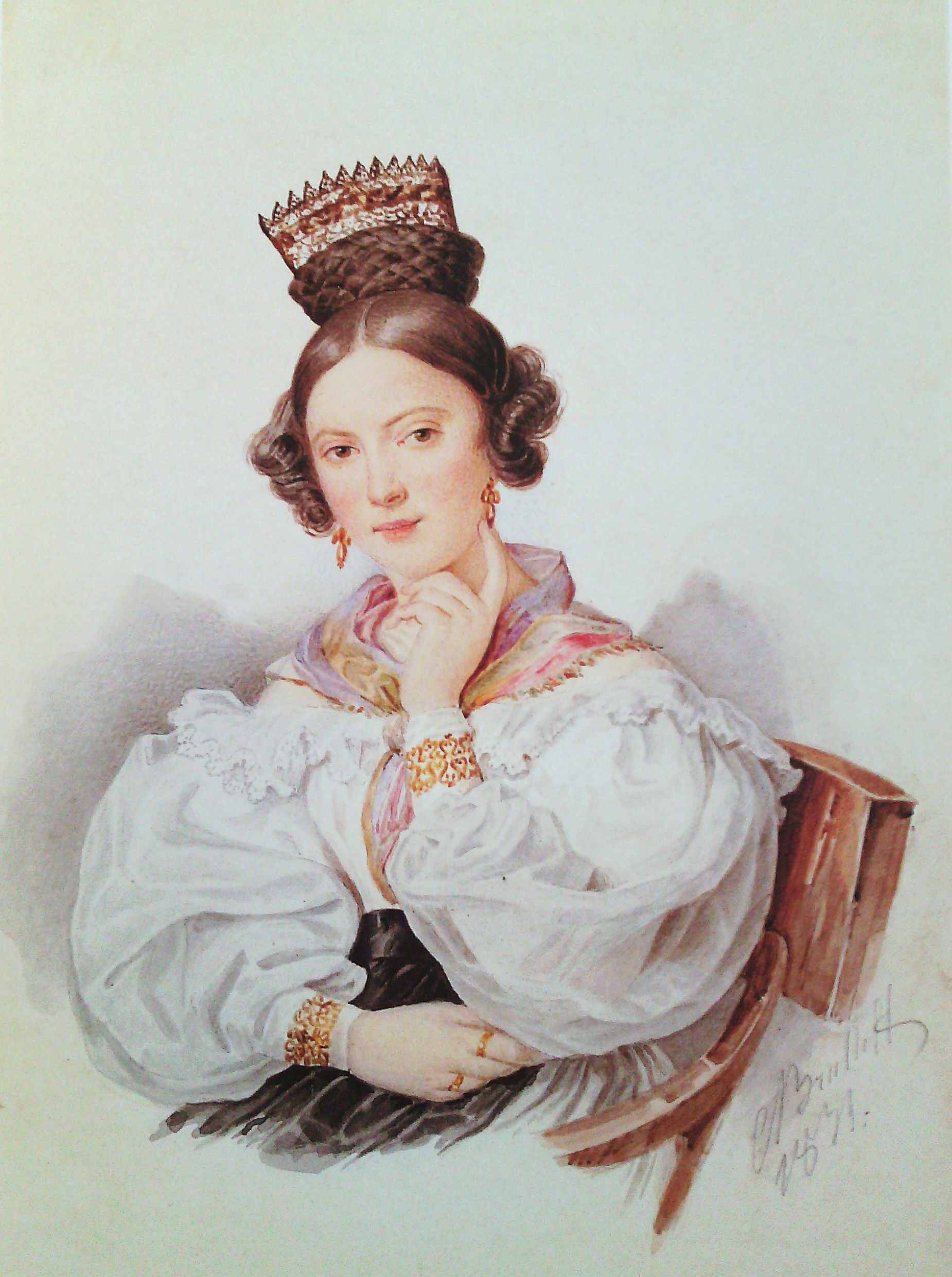 Sofia Alexandrovna Voldova (1812-1833),(?) Sablukov, cousin E. P. Bakuninoy